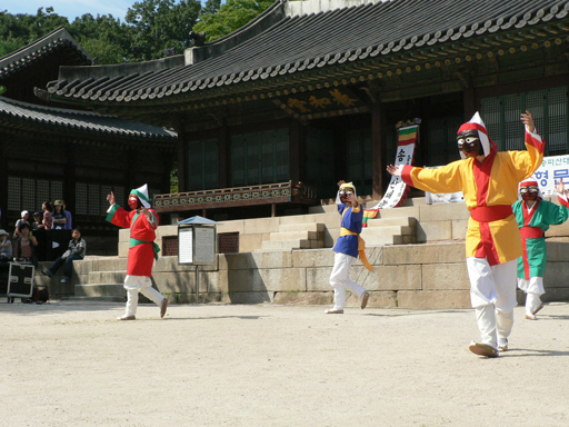 Songpa Sandaenori (송파산대놀이), mask dance to have handed down to Songpa regions, Seoul, South Korea.